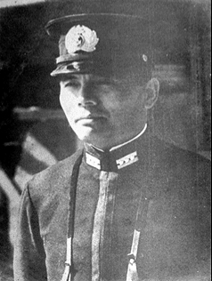 Admiral Ryūsaku Yanagimoto (1884-1942)